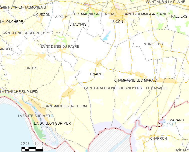 Map of French municipality Triaize